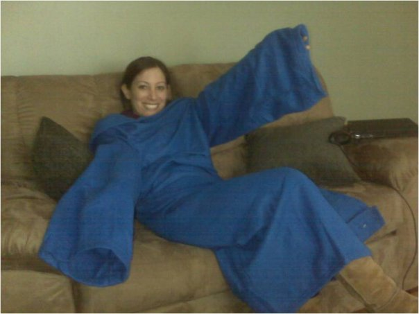 Courtney in Snuggie